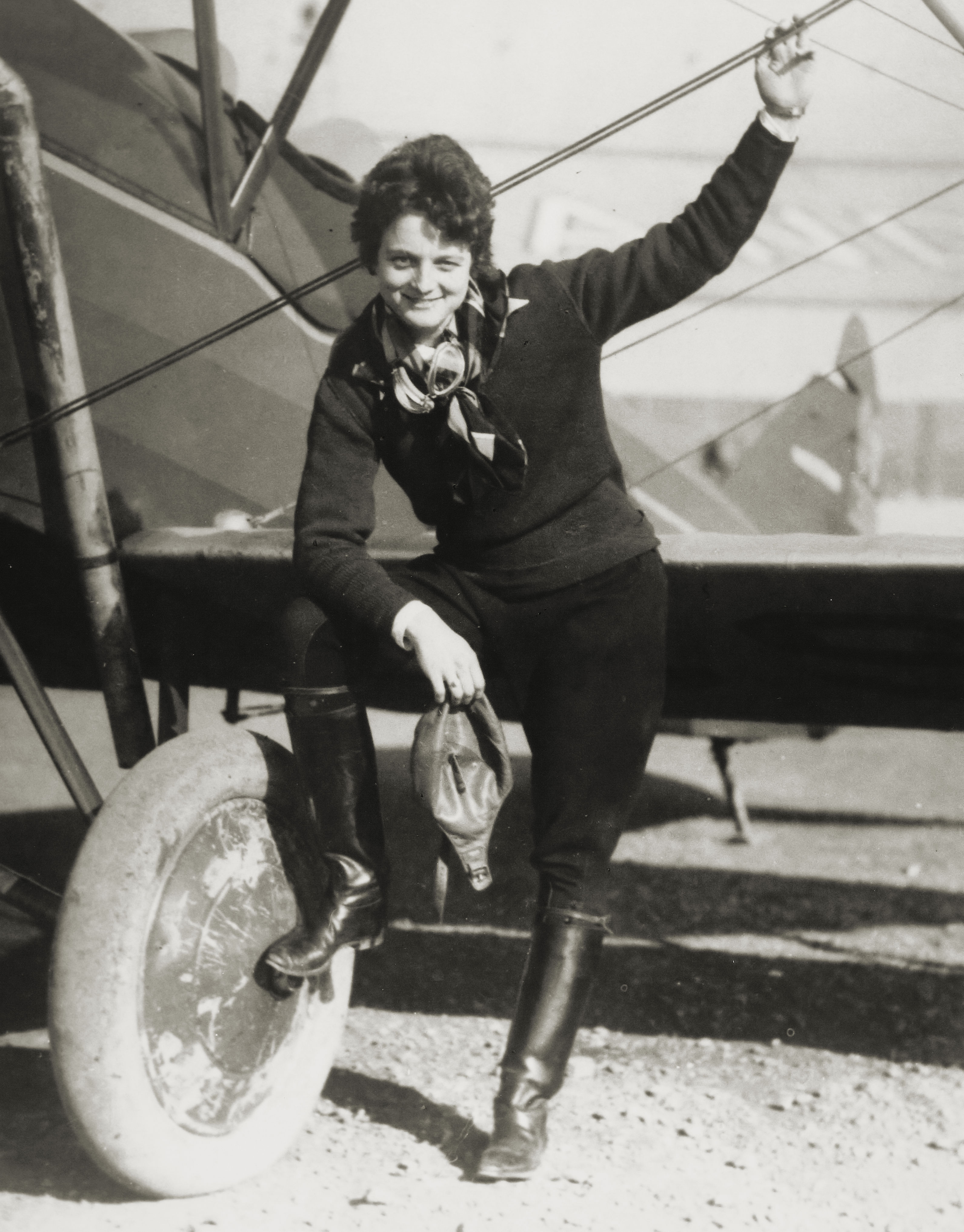 Louise Thaden, no known year of production, no known copyright restrictions This image was taken from Flickr's The Commons. The uploading organization may have various reasons for determining that no known copyright restrictions exist, such as: The copyright is in the public domain because it has expired; The copyright was injected into the public domain for other reasons, such as failure to adhere to required formalities or conditions; The institution owns the copyright but is not interested in exercising control; or The institution has legal rights sufficient to authorize others to use the work without restrictions. More information can be found at Please add additional copyright tags to this image if more specific information about copyright status can be determined. See Commons:Licensing for more information. No known copyright restrictionsNo restrictions